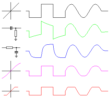 Distorted waveforms square sine